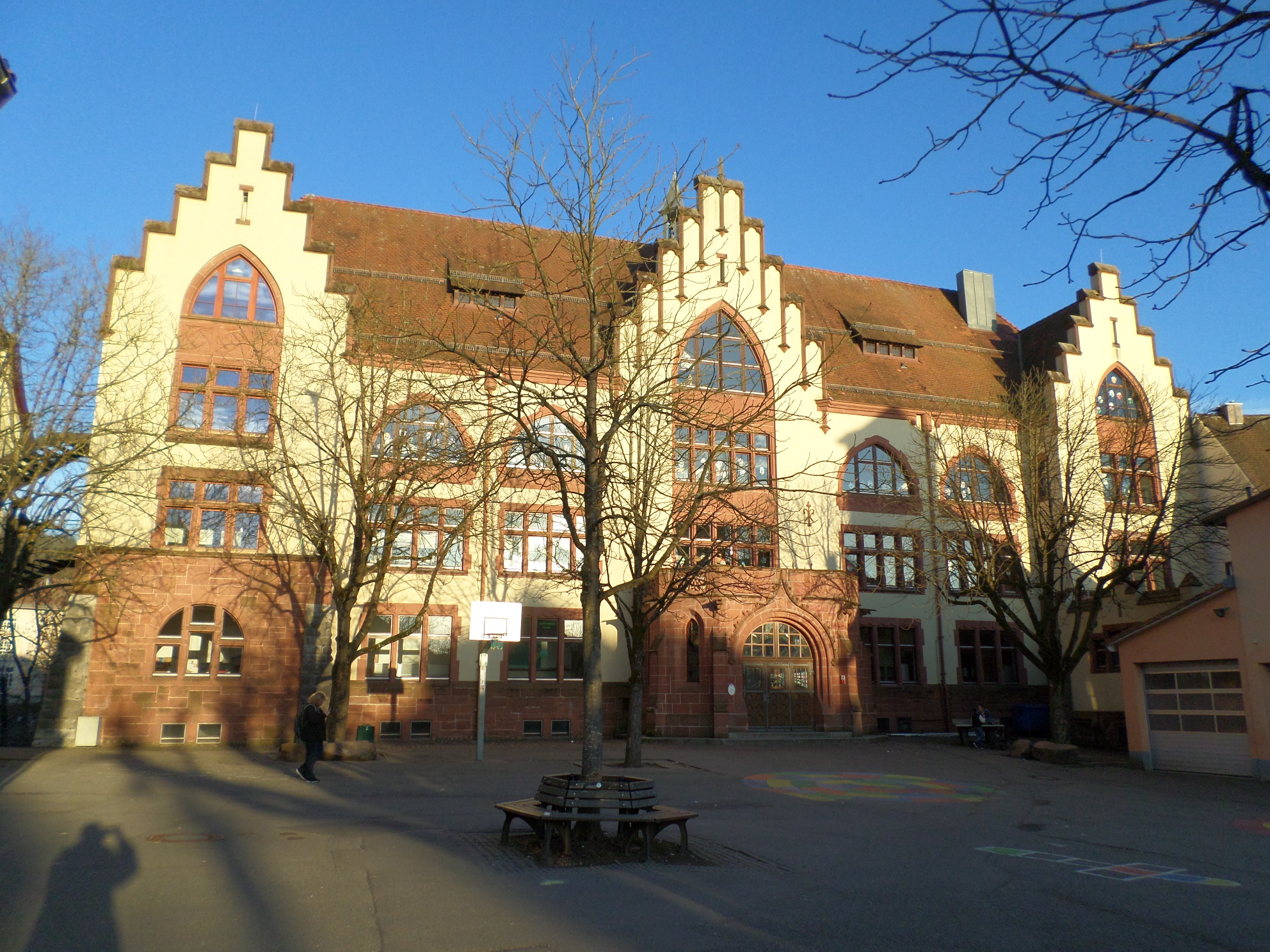 Heinrich-Hansjakob School, Waldshut-Tiengen, Waldshut, Baden-Württemberg, Germany